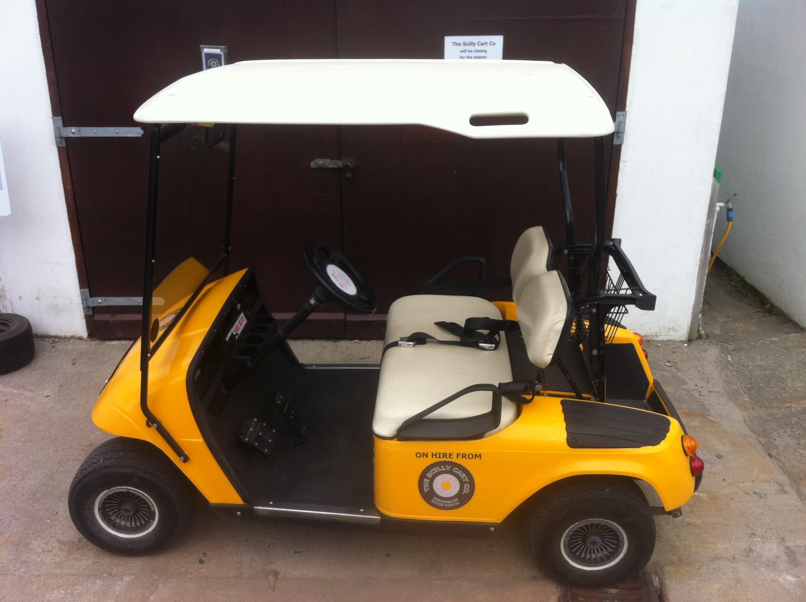 September 2012 - Electric Golf buggy